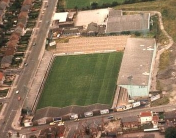 Prenton Park, August 1986.